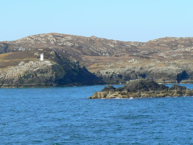 Weavers Point Lighthouse on Rubha an Fhigheadair, North Uist, with a small islet, Madadh Beag in the foreground